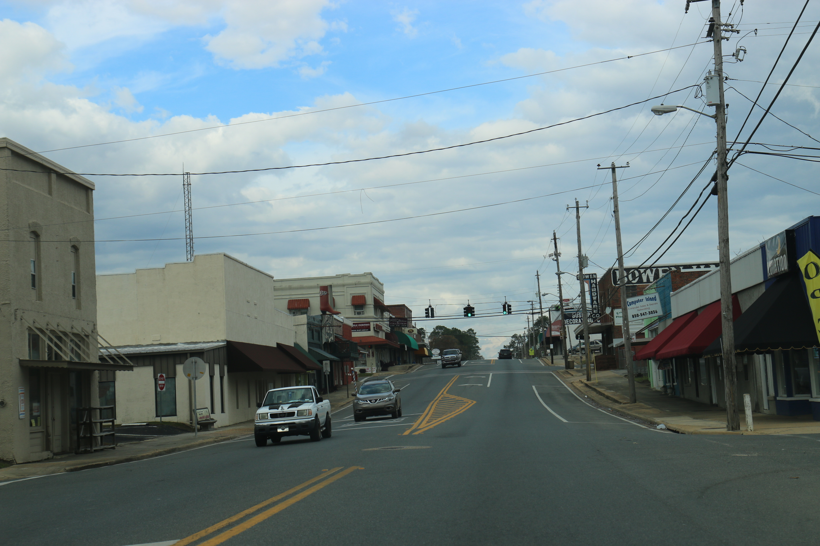 Downtown Bonifay, Florida businesses on SR79.